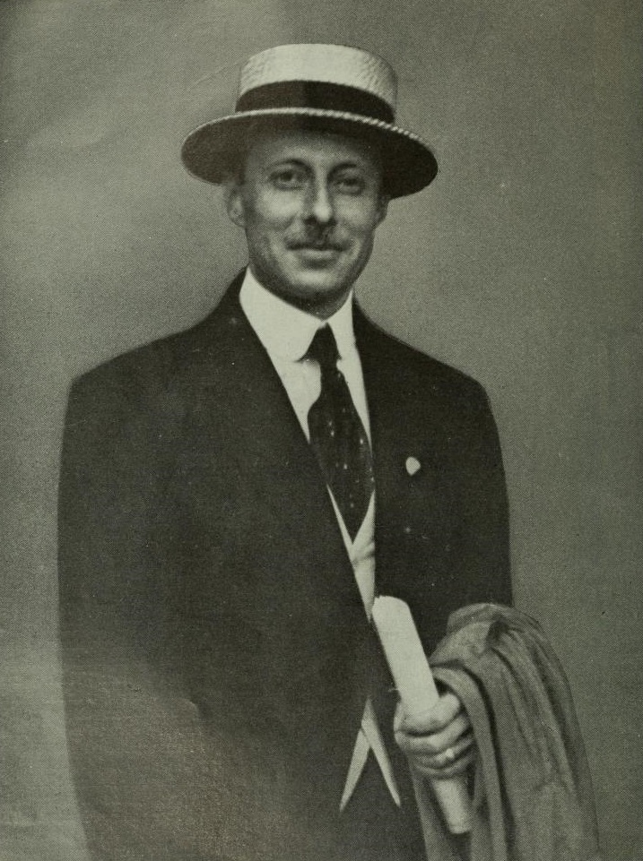 Portrait of Jean Victor Guislain Parmentier